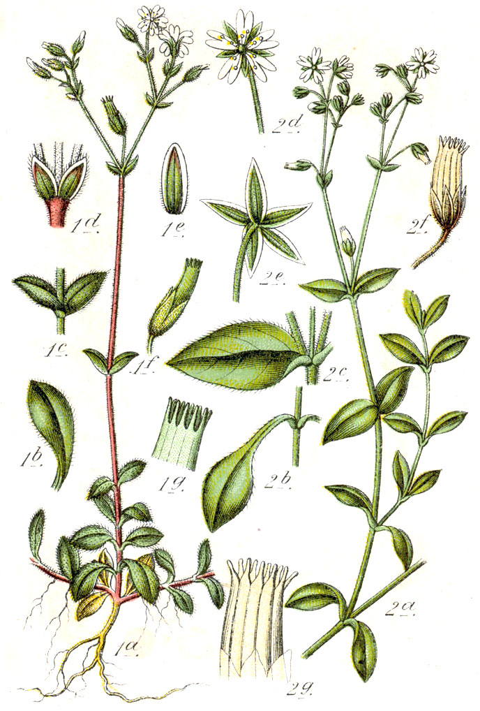 1. Cerastium fontanum subsp. vulgare (Hartm.) Greuter & Burdet, syn. Cerastium holosteoides Fr., Alsine trivialis E.H.L.Krause 2. Cerastium sylvaticum Waldst. & Kit., syn. Alsine silvatica (Waldst. & Kit.) E.H.L.Krause Original Caption 1. Gemeine Miere, Alsine trivialis 2. Wald-Miere, A. silvatica